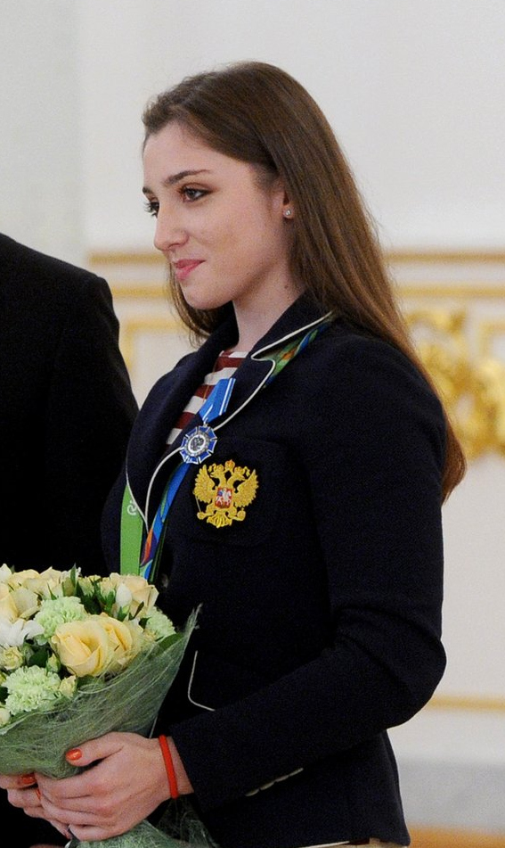 Vladimir Putin presented state awards to the Russian athletes who won gold medals at the 2016 Olympic Games in Rio de Janeiro (Brazil).